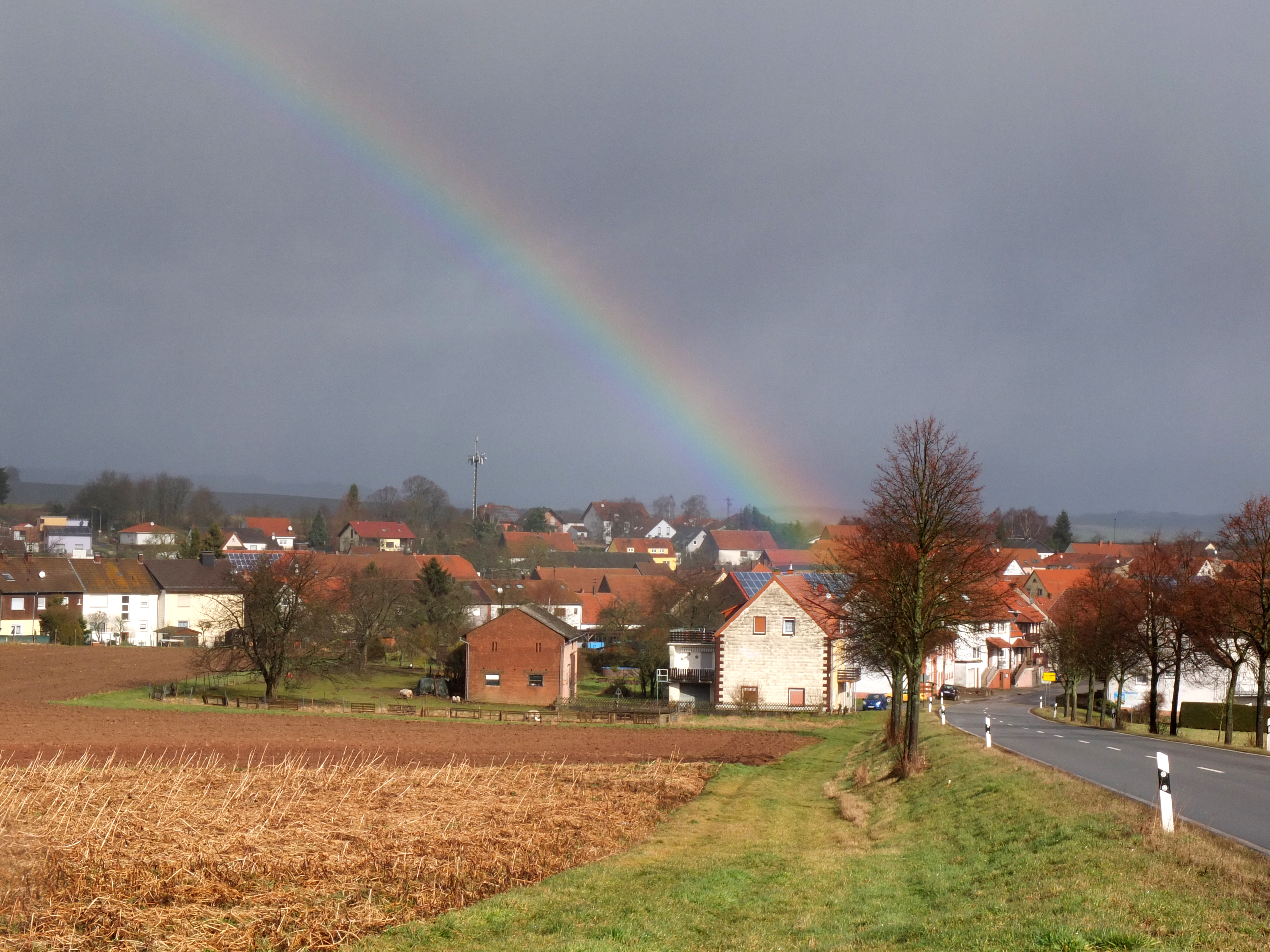 Village of Konken in Germany